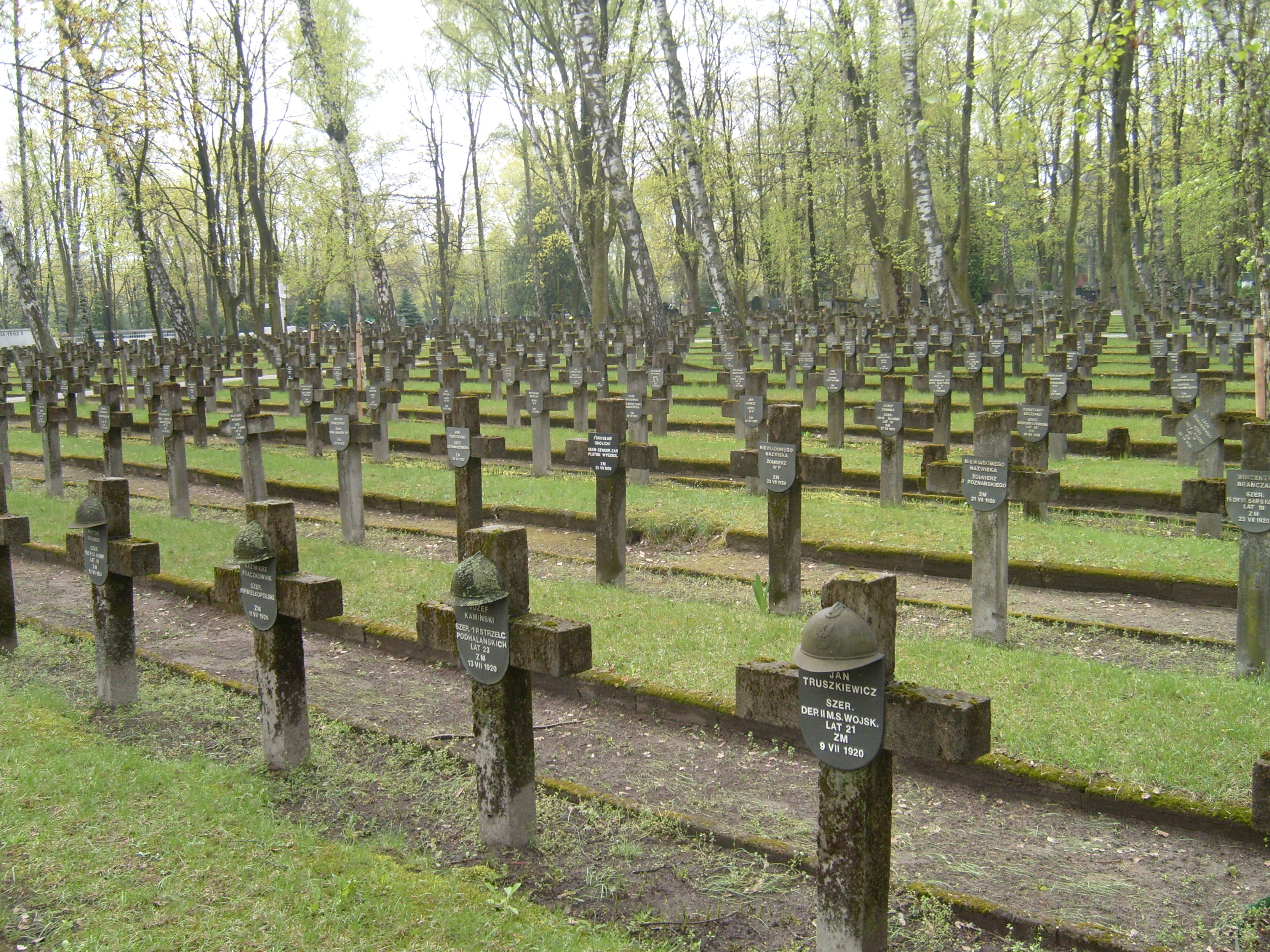 Graves of Polish-Soviet war soldiers at Powązki Military Cemetery in Warsaw, Poland.